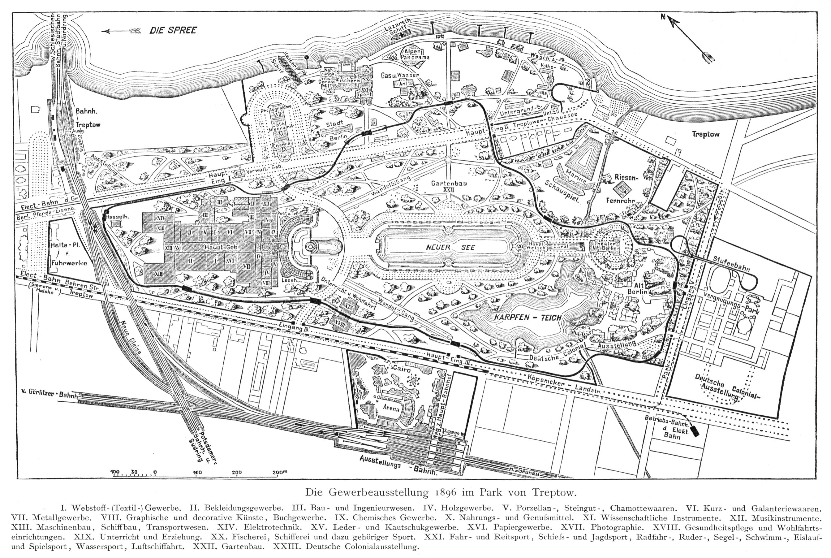 Berlin - industrial exhibition 1896, situation plan